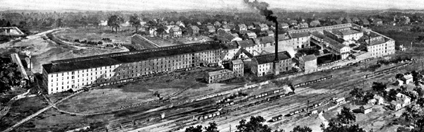 The Keasbey & Mattison Company Ambler, Pa. "Dr. Richard V. Mattison, president. Magnesia, Asbestos, and Pharmaceutical Products. This gigantic establishment known throughout the land, in fact, the largest plant in the world devoted to the manufacture of magnesia and asbestos products, was founded in 1873 and has been developed by its present owners from the small laboratory originally located in Philadelphia to the immense manufacturing works at Ambler, Philadelphia & Reading Railway."